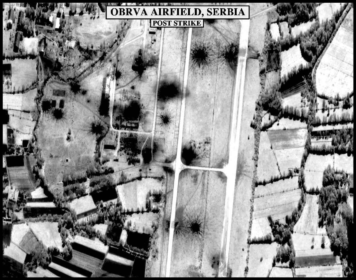 Post-strike bomb damage assessment photograph of Obrva Airfield, Serbia, used by Joint Staff Vice Director for Strategic Plans and Policy Maj. Gen. Charles F. Wald, U.S. Air Force, during a press briefing on NATO Operation Allied Force in the Pentagon on May 5, 1999.